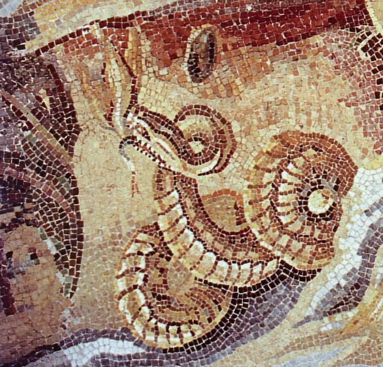 Detail of Nile mosaic from Palestrina (section 1a). Museo Nazionale Palestrina, Italy. File:Praeneste_-_Nile_Mosaic_-_Section_1_-_Dal_Pozzo.jpg